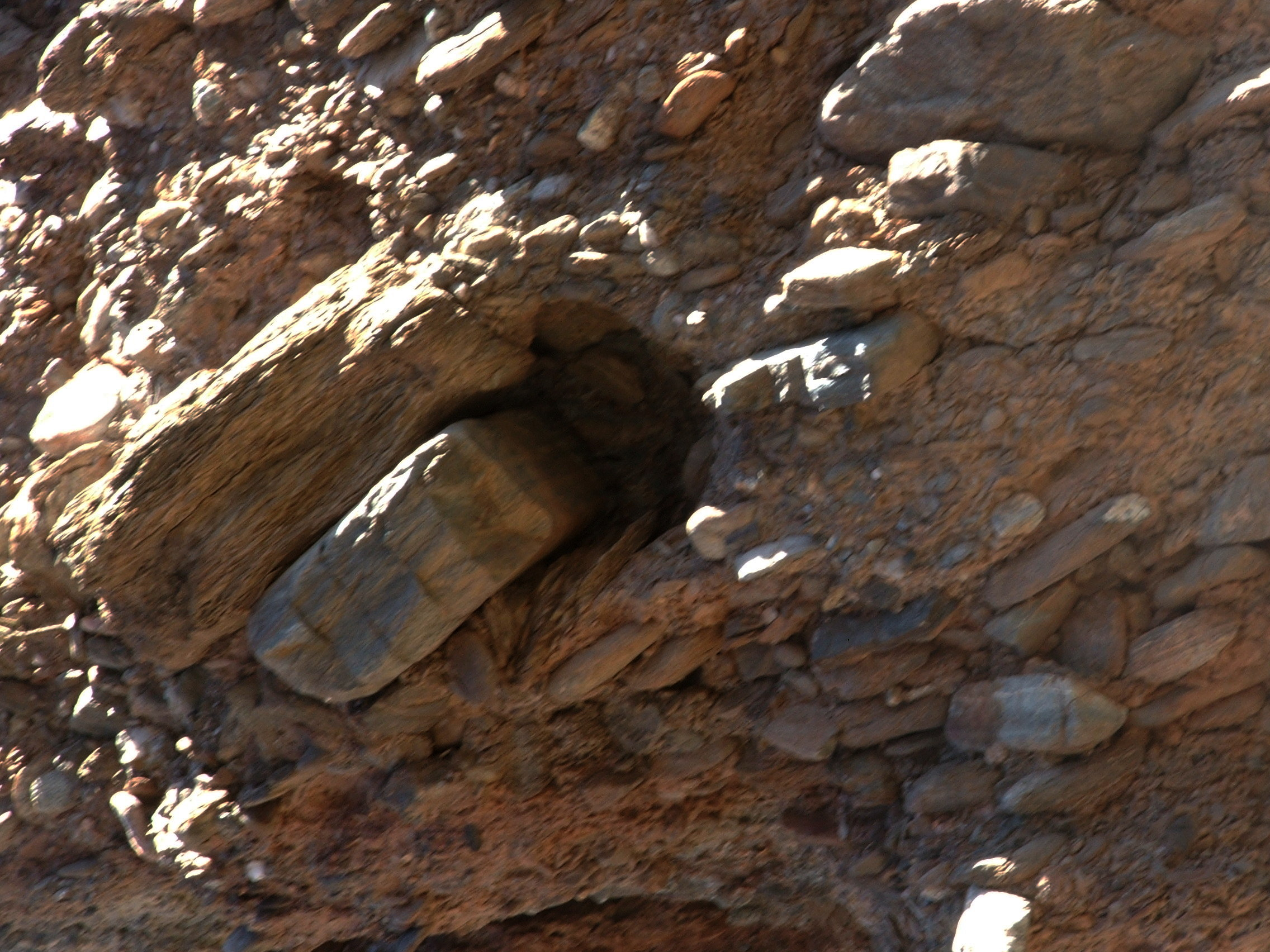 An imbricated fabric from debrites of the Rambla de la Sierra, Spain.